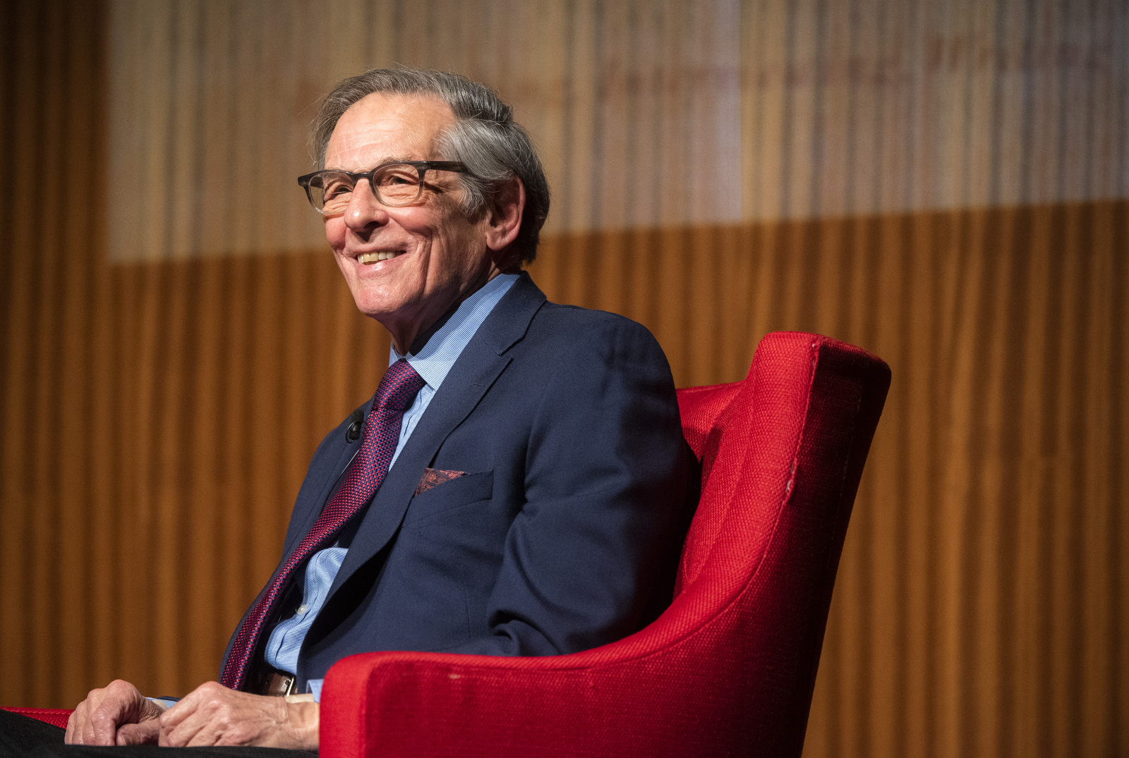 On Monday, April 15, 2019, two-time Pulitzer Prize-winning author Robert Caro joined Friends of the LBJ Library to speak about his new book, Working, a collection of vivid, candid, and deeply revealing stories about researching and writing his acclaimed books.